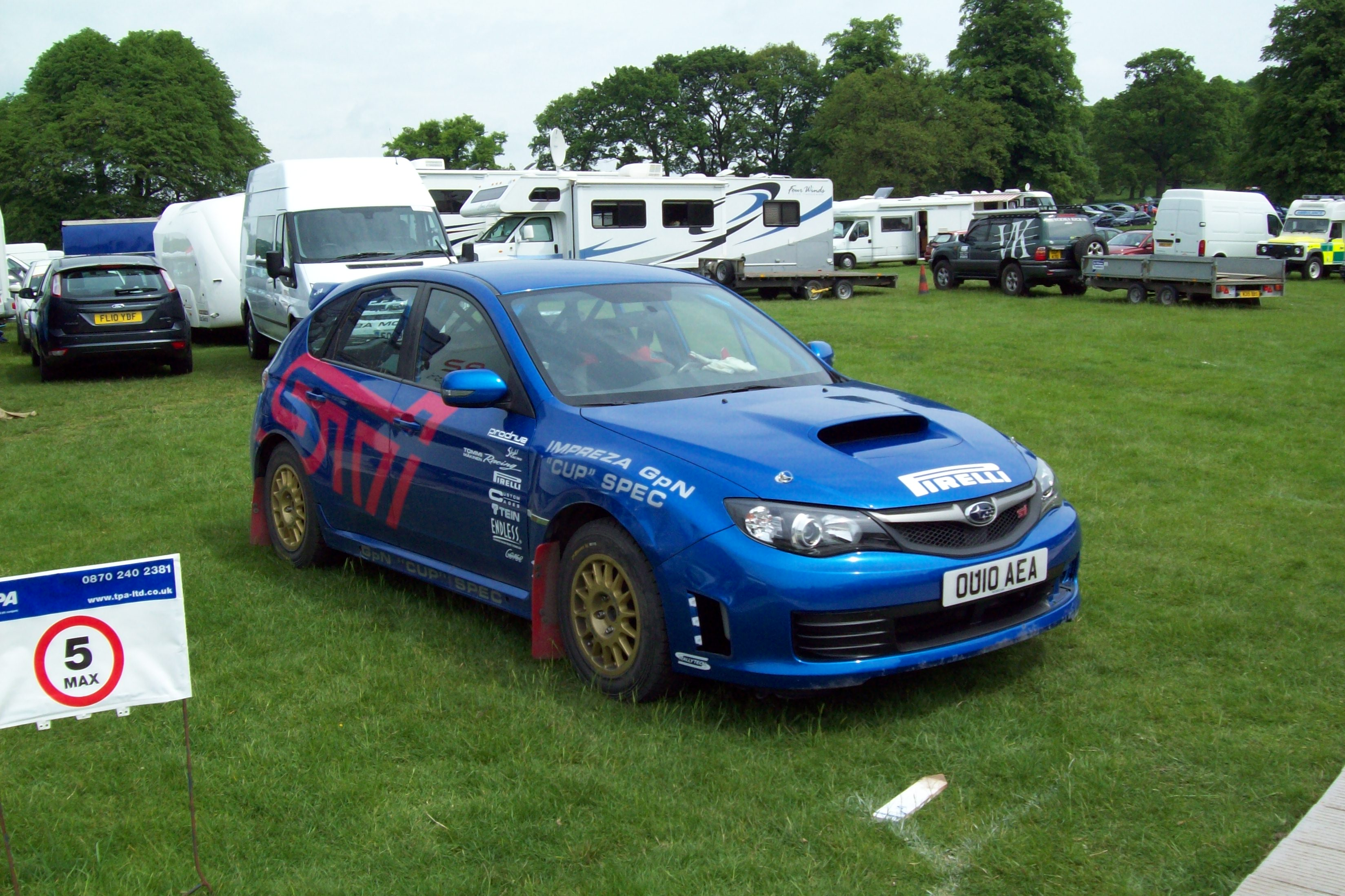 Taken at the Chatsworth Rally Show in 2010 with a Kodak C813 camera. 2010 Group N-spec Impreza, as can be determined from the livery on the car.